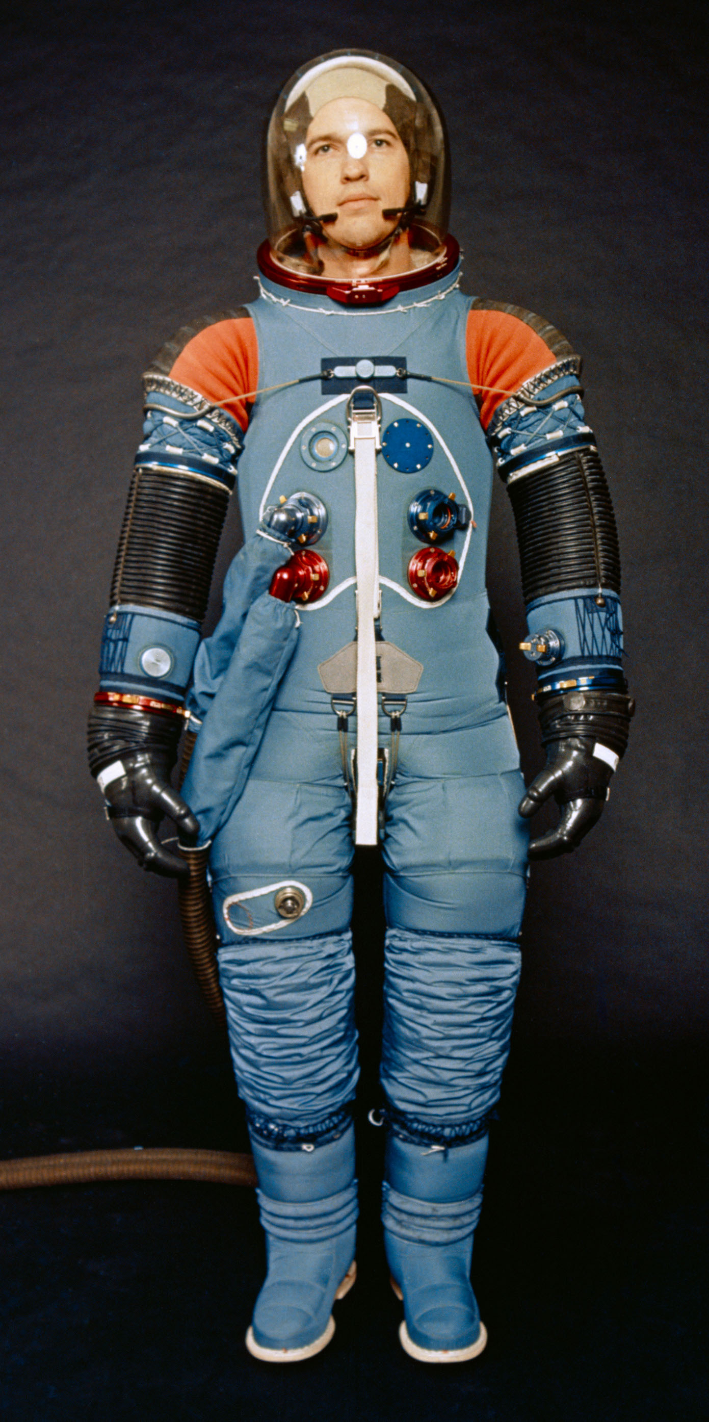 "The basic A7L pressure garment assembly has the integrated thermal micrometeorite garment removed. The engineering challenge was the design of the joints. At joints, a handwoven linknet caused restraint in all directions. Steel cables connected the shoulder joint to plates on the back and chest and limited knee flexion to the vertical fore-and-aft plane. This suit was the product of 18 years of research....and was the most complex tailored outfit assembled at the time." -Suiting Up For Space. Photo ID: S71-24537